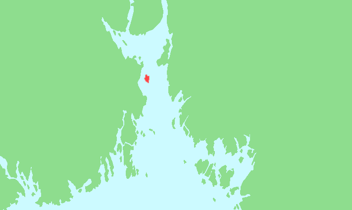 Locator map of Bastøy, Vestfold, Norway